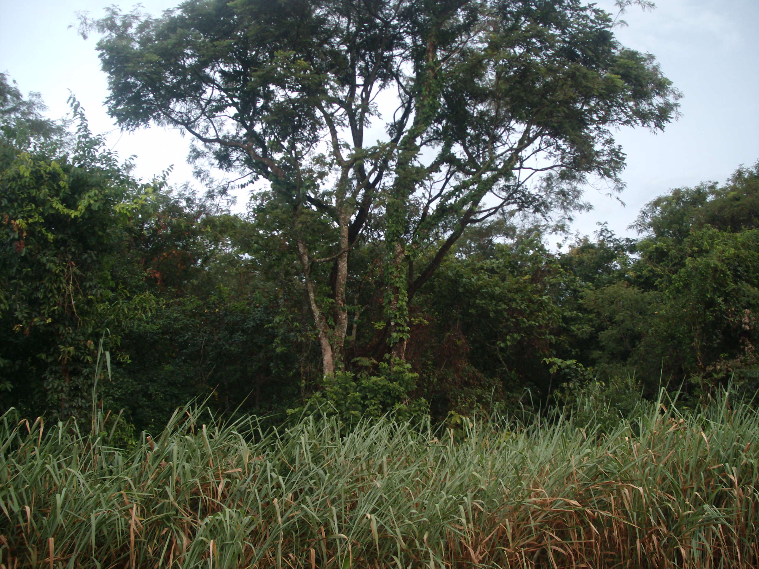 Forest remaining in Santa Fé do Sul